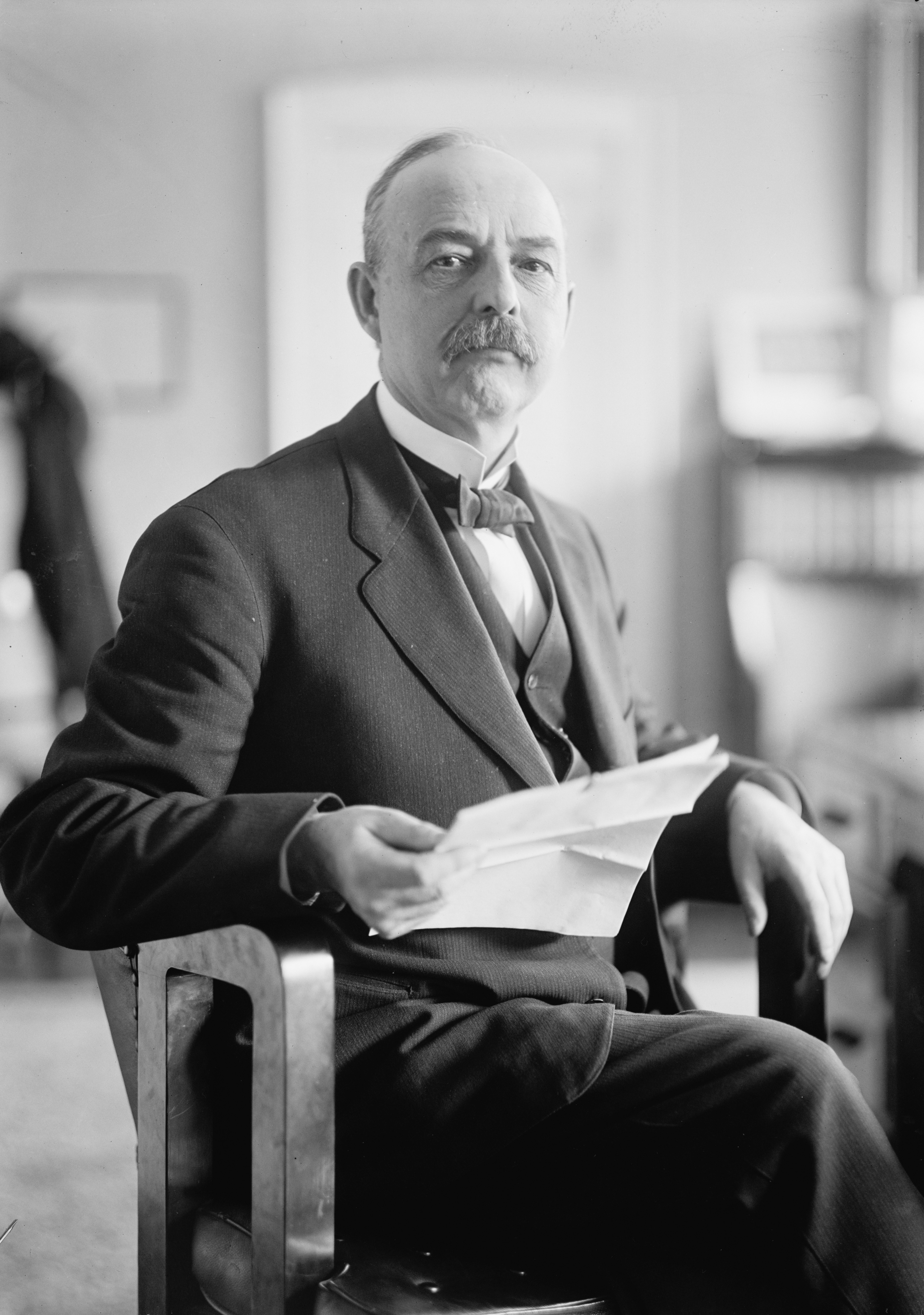 Title: SELLS, CATO. COMMR., BUREAU OF INDIAN AFFAIRS, INTERIOR DEPARTMENT Abstract/medium: 1 negative : glass ; 5 x 7 in. or smaller